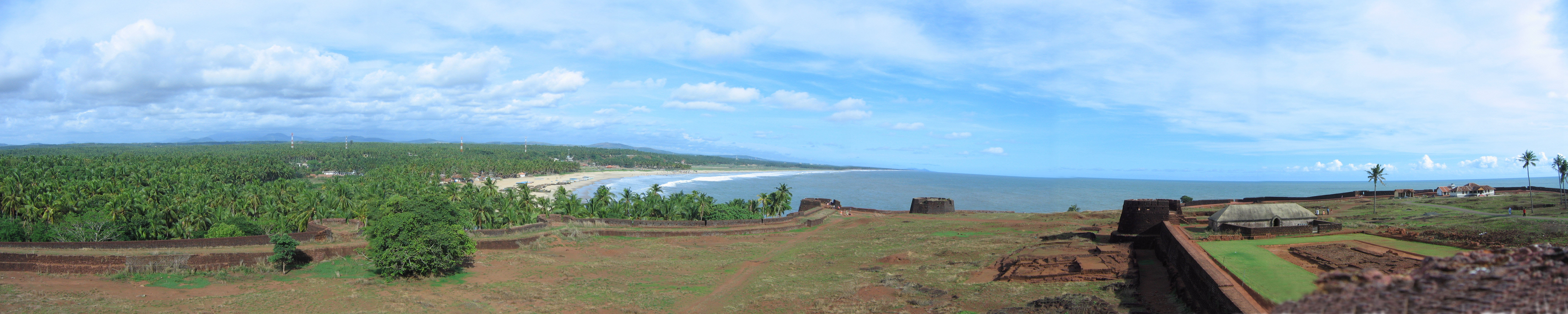 Bakel Fort is an ancient fort in Kasaragod District in North Kerala. Here is a panoramic view from the fort. Part of the fort and the beach and surroundings can be seen.